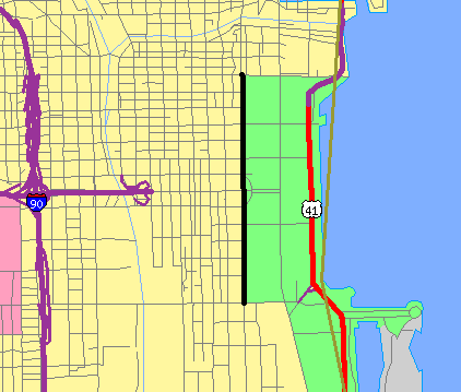 Map of the location of Historic Michigan Boulevard District